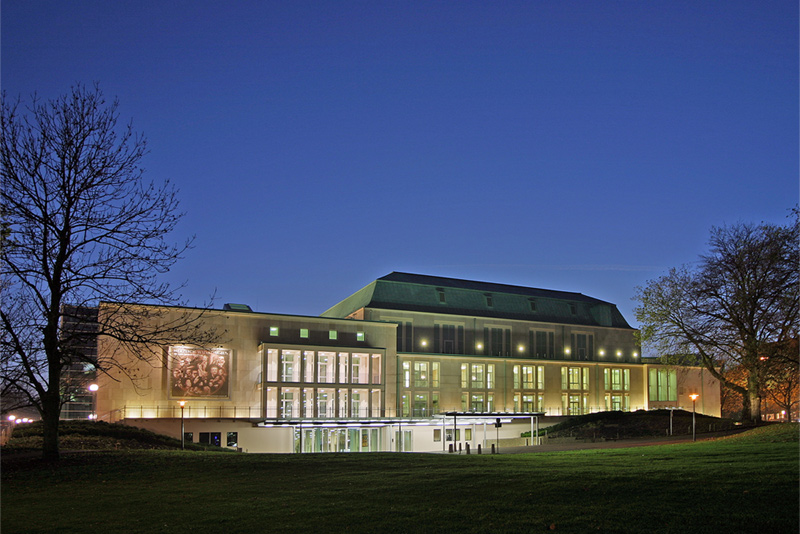 Saalbau, Essen, Germany. Home to the Philharmonie Essen and location of various events.